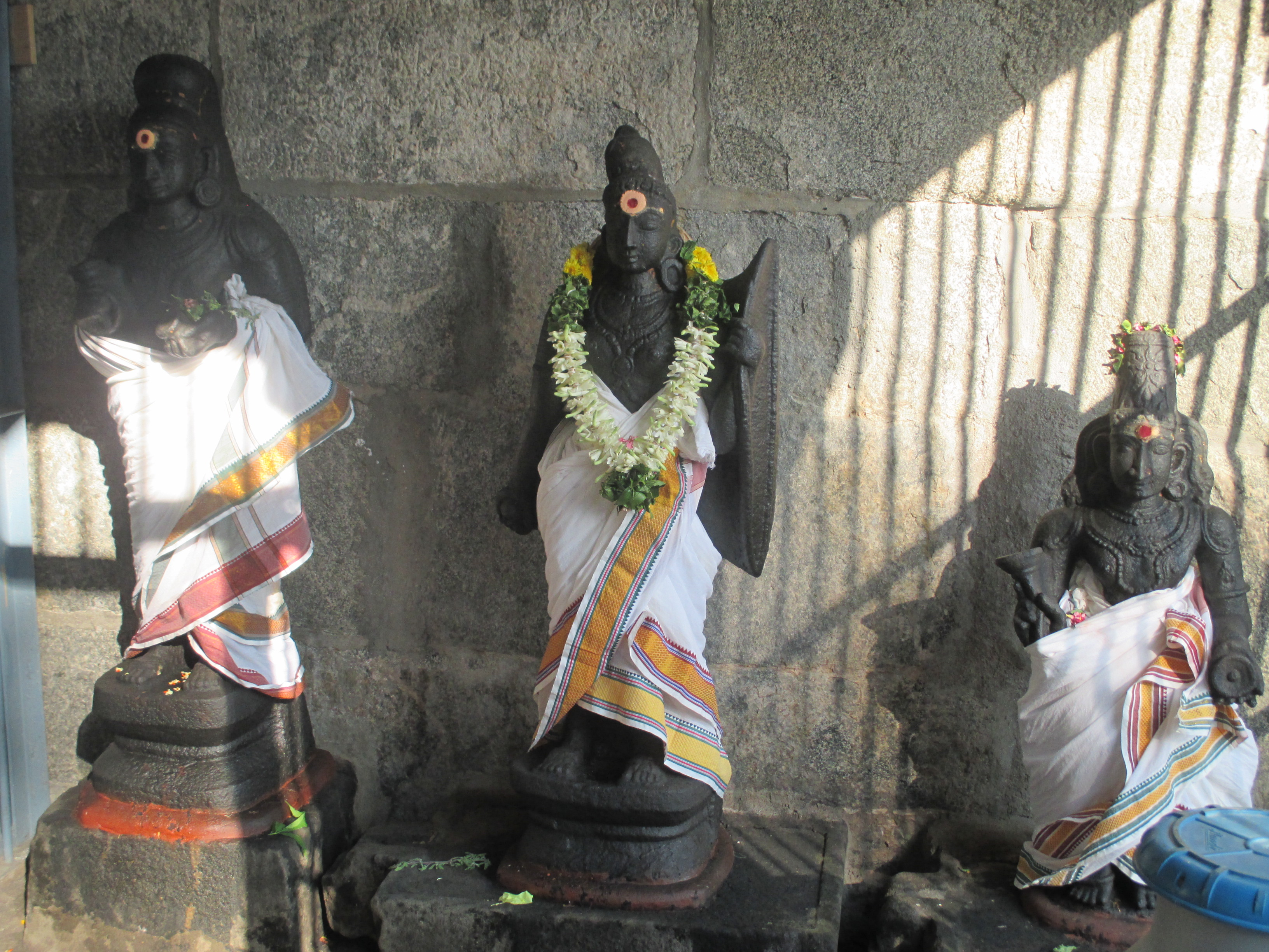 Thirumuruganatheeswar Temple